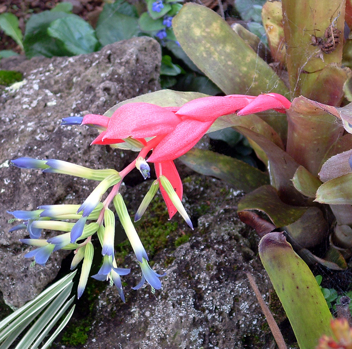 Genus Billbergia Familia Bromeliaceae; Bromeliaceae Genus is Billbergia (maybe a Hybrid) Photo taken by Moriori and released PD